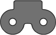 IEC 60320 C3